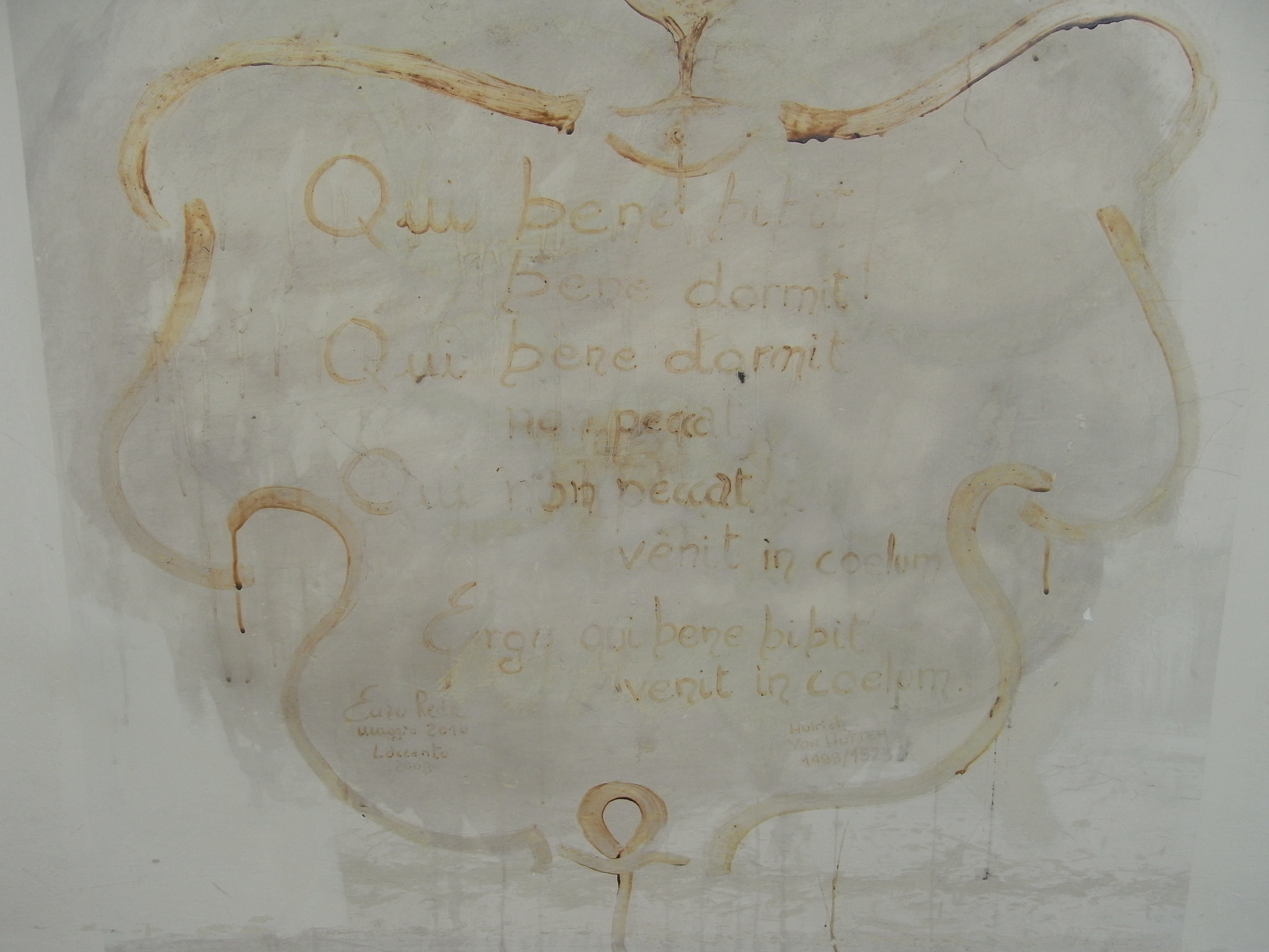 Inscription in Torino in Latin